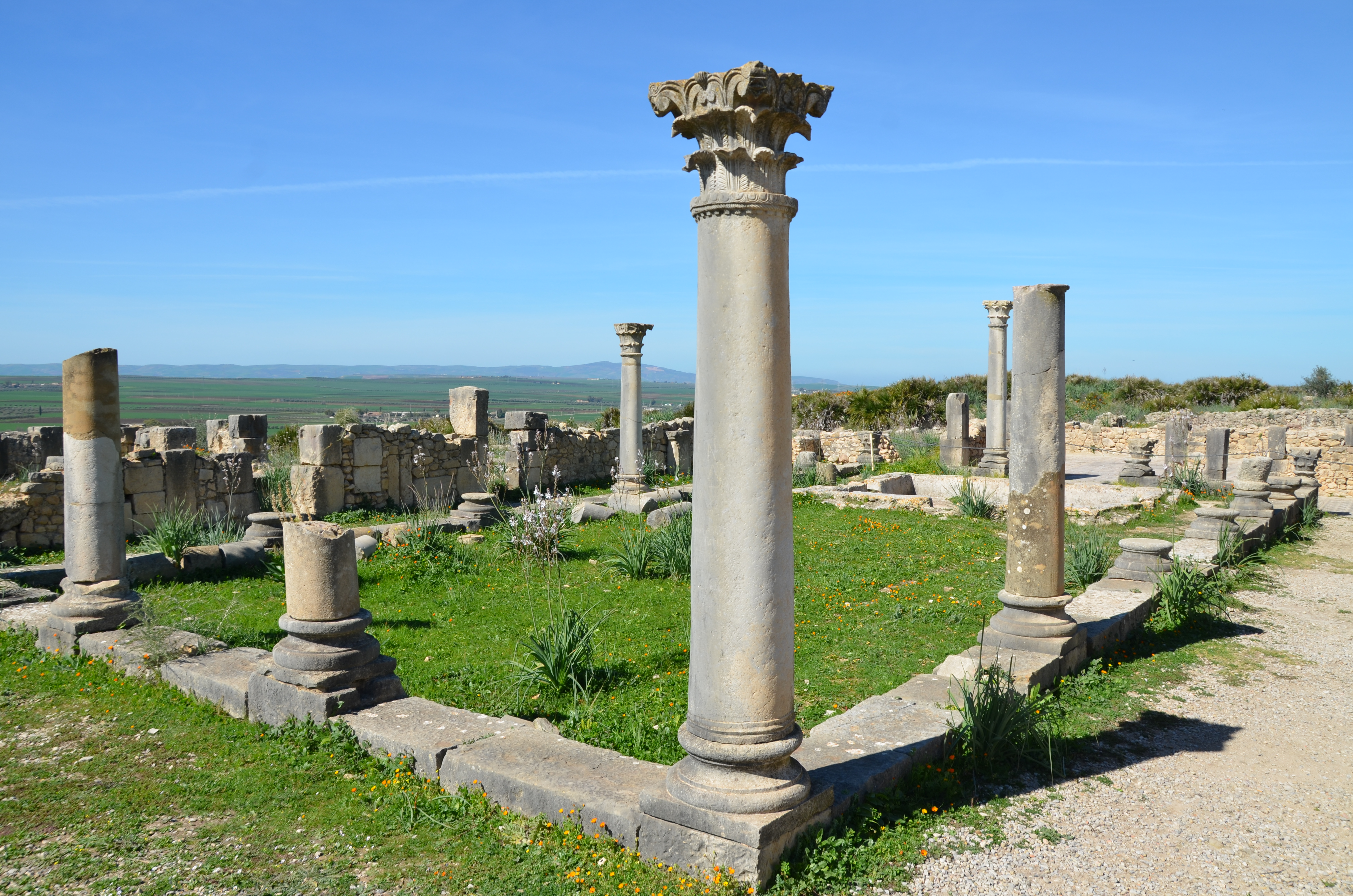 The House of Ephebe, Volubilis